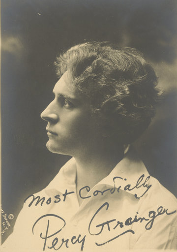 Photograph of Percy Grainger, donated by him "For the Benefit of the War Relief Fund" (apparently number 9 in the set)